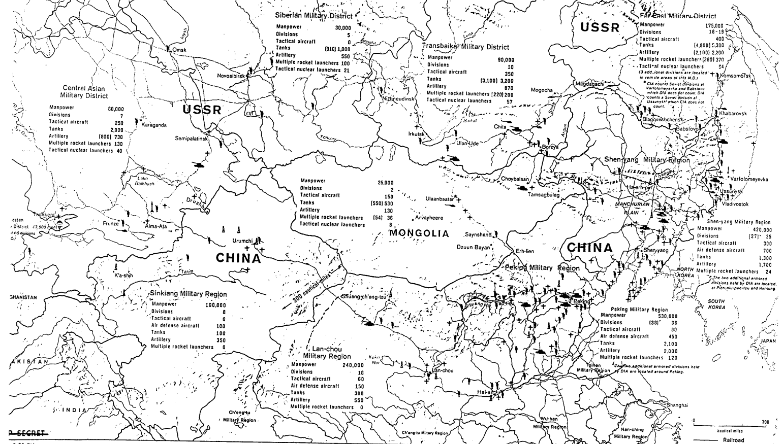 Chinese and Soviet Forces Available For Early Use Along China’s Northern Border.